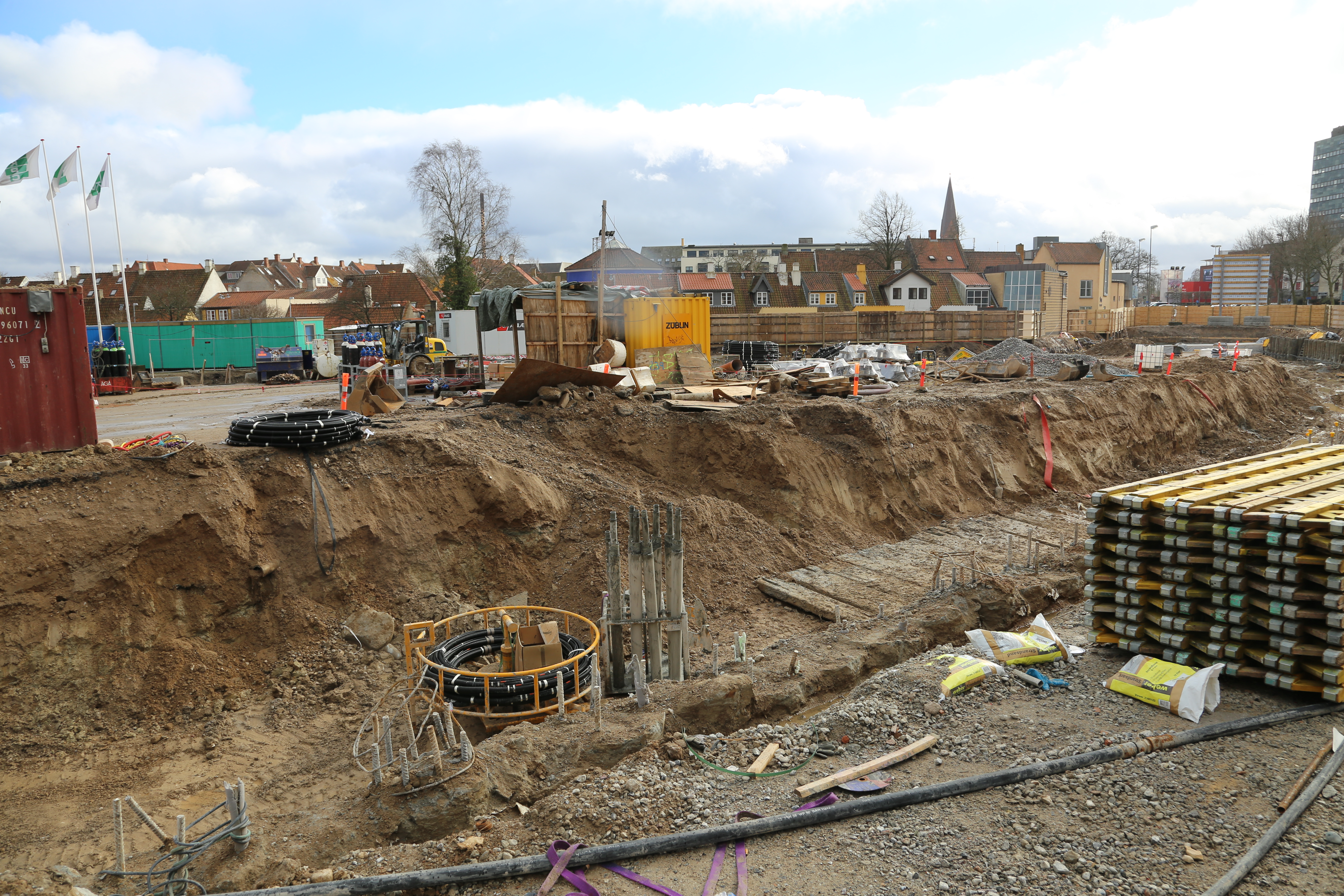 Construction of underground parking where the now closed part of the street Thomas B. Thriges Gade, between the streets Østre Stationsvej and Hans Jensens Stræde in Odense, Denmark.